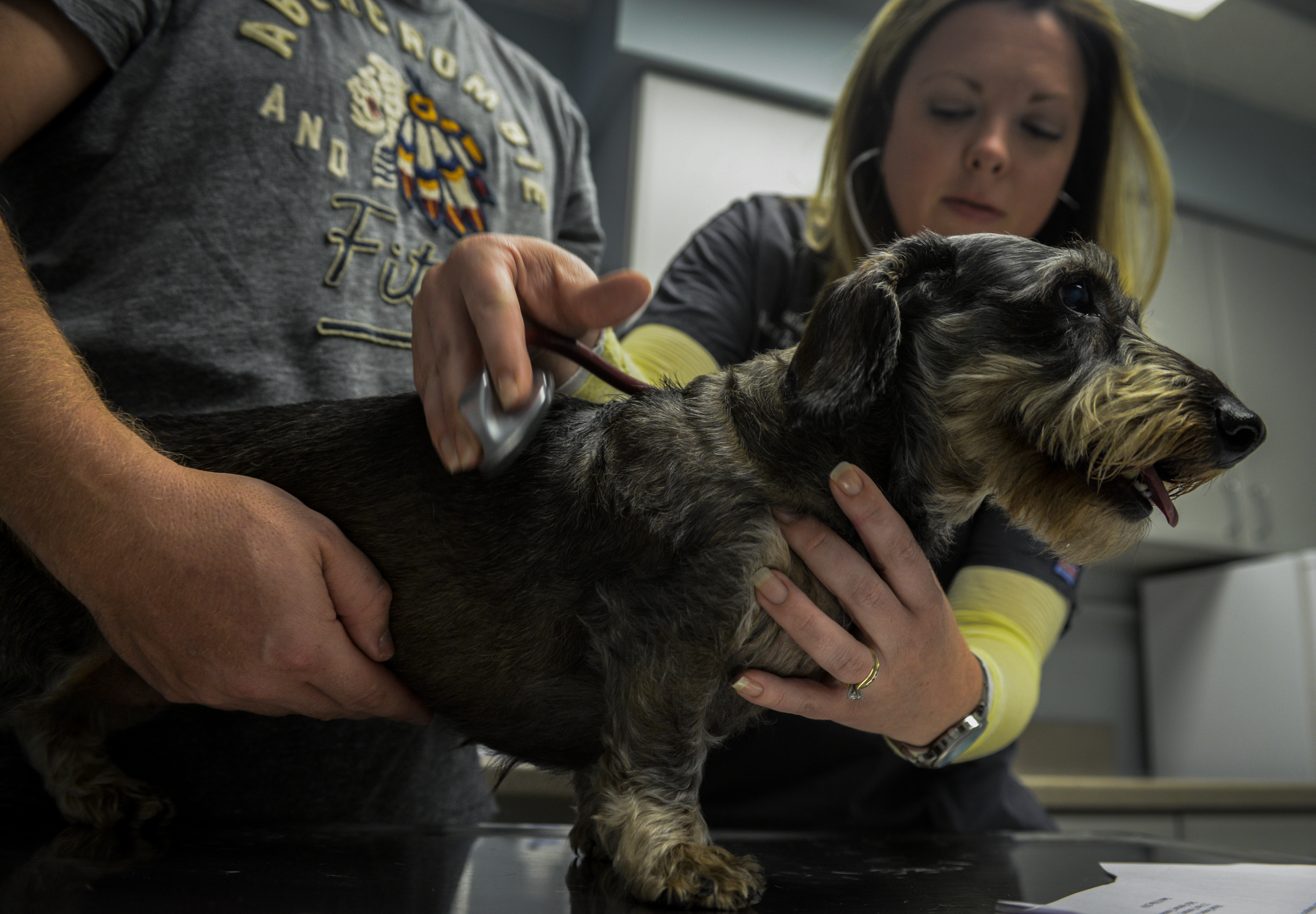 Heather Leighton, a Nellis Air Force Base Veterinary Treatment Facility veterinary animal heath technician, examines a dog during a health certification exam at Nellis AFB, Nev., May 3, 2016. A health certificate is a declaration stating that that an animal has met the requirements to enter another country, but also that the animal is healthy to travel and can handle the certain extremes that can happen while traveling. (U.S. Air Force photo by Airman 1st Class Kevin Tanenbaum) Unit: 99th Air Base Wing Public Affairs